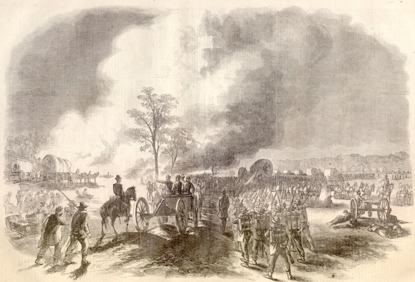 Shows the retreat of Franklin's corps at the Battle of Fair Oaks, 29 June 1862. From the original source description in Harper's Magazine, on page 523 of the 16 August 1862 issue: We continue in this number our series of illustrations of the Army of the Potomac, from sketches by Mr. Alfred R. Waud. Mr. Waud writes respecting the illustrations on pages 516 and 517: THE RIGHT WING FALLING BACK. "This was a scene to be remembered. It occurred at two A.M. on Sunday, 29th June. The clearing was filled with wagon-trains, shown up by the glare of fires lighted for the destruction of such stores as it was impossible to convey with the army. Among these the artillery and infantry steadily moved to take up positions for their defense. By the dull glow of the fires guns in position came into sight formed across the field; and occasionally, when a box of cartridges or other inflammable material would explode, the whole scene would be illuminated brightly in all its detail: artillery moving; guns in battery, with the tired cannoniers sleeping around them; wagon-trains forming for a move; soldiers burning stores, con amore, that 'Johnny Reb' might not profit by them; stragglers and sick working their weary way along, and much more, making a scene of the most dramatic character."